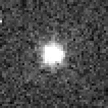 Hubble Space Telescope image of Jupiter trojan 7119 Hiera, taken on 8 February 2013